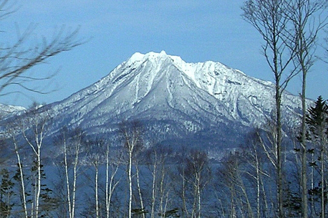 Mount Eniwa as seen from the SbE in Chitose, Hokkaido, Japan. Lake Shikotsu in the foreground.